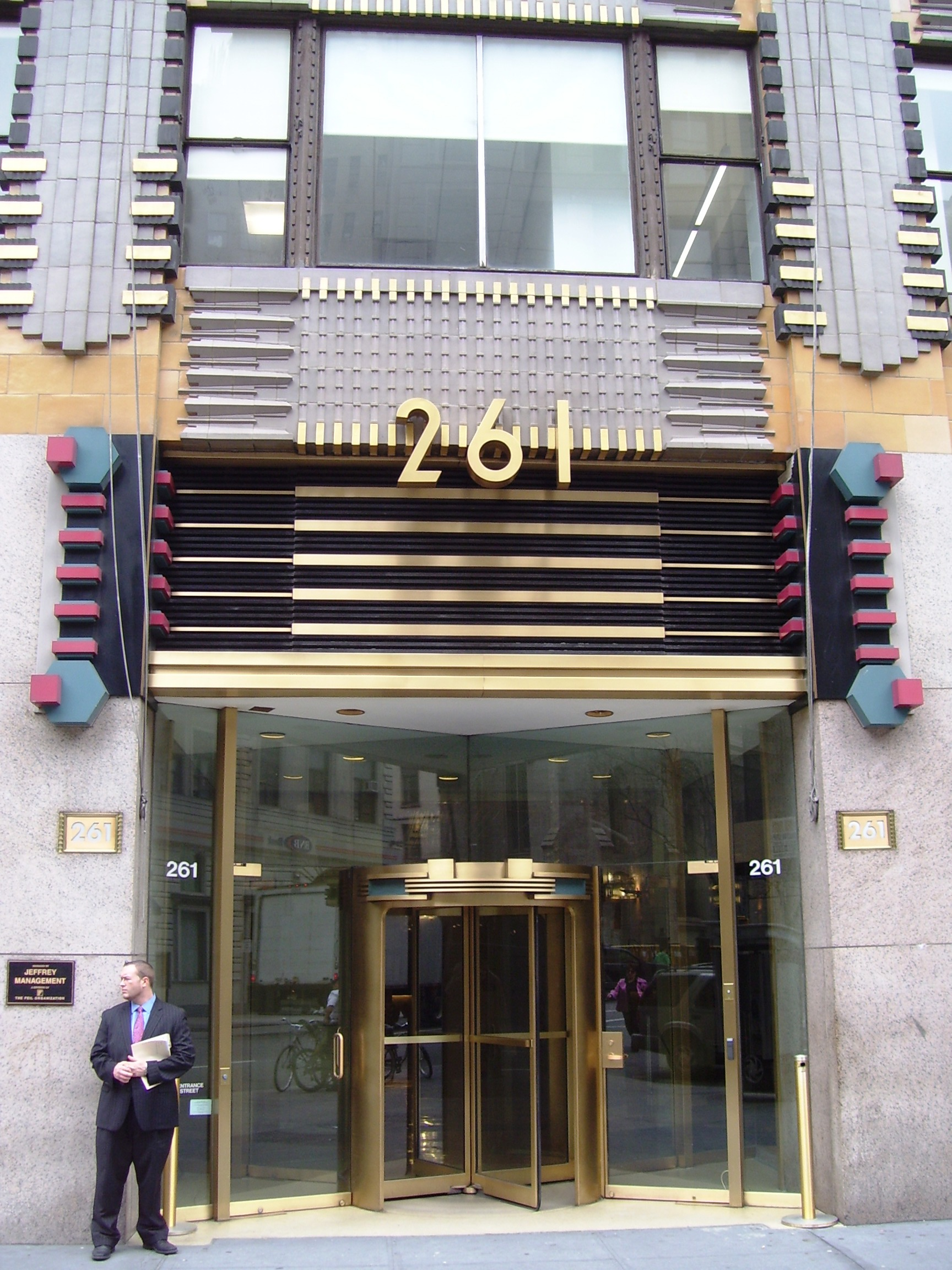 261 Fifth Avenue at the corner of East 29th Street in the NoMad neighborhood of Manhattan, New York City is a 28-floor office tower built in 1928-29, an designed by Ely Jacques Kahn in Art Deco style. The building is locate within the Madison Square North Historic District. (Source: NYCLPC Madison Square North Historic District Designation Report)